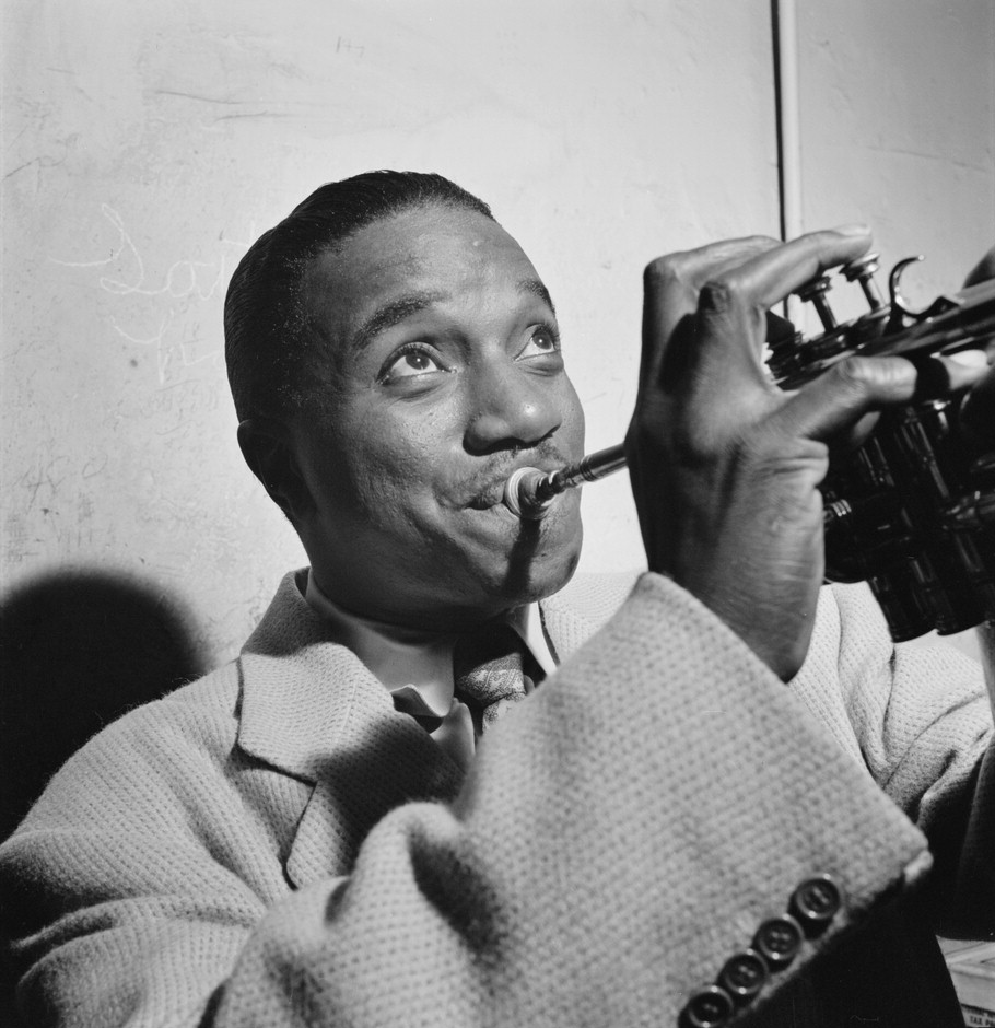 Hot Lips Page, Apollo Theater, New York, N.Y., ca. October 1946. Photography by William P. Gottlieb.